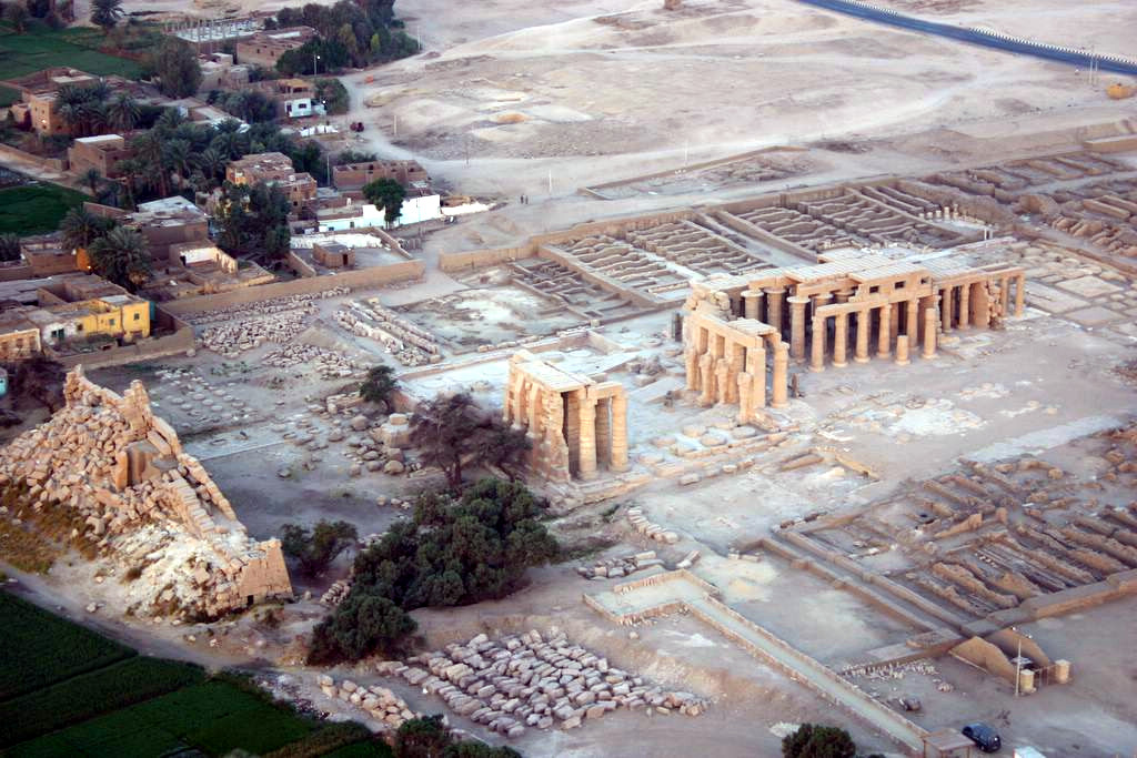 Ramesseum from the air